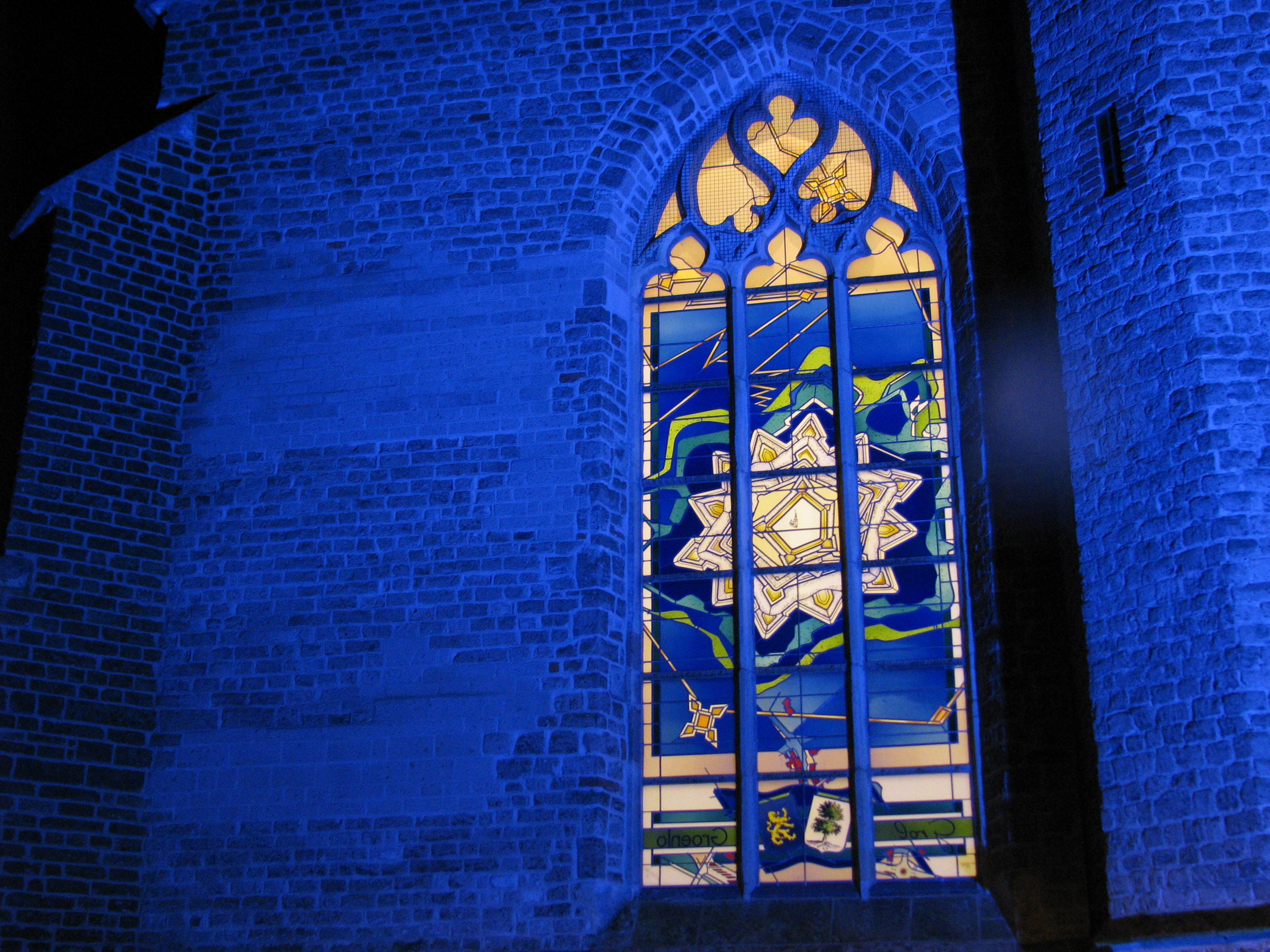 A window in the Calixtux church in Groenlo, depicting the Siege of Groenlo in 1627, including the circumvallation line that was used. Made in 2007.